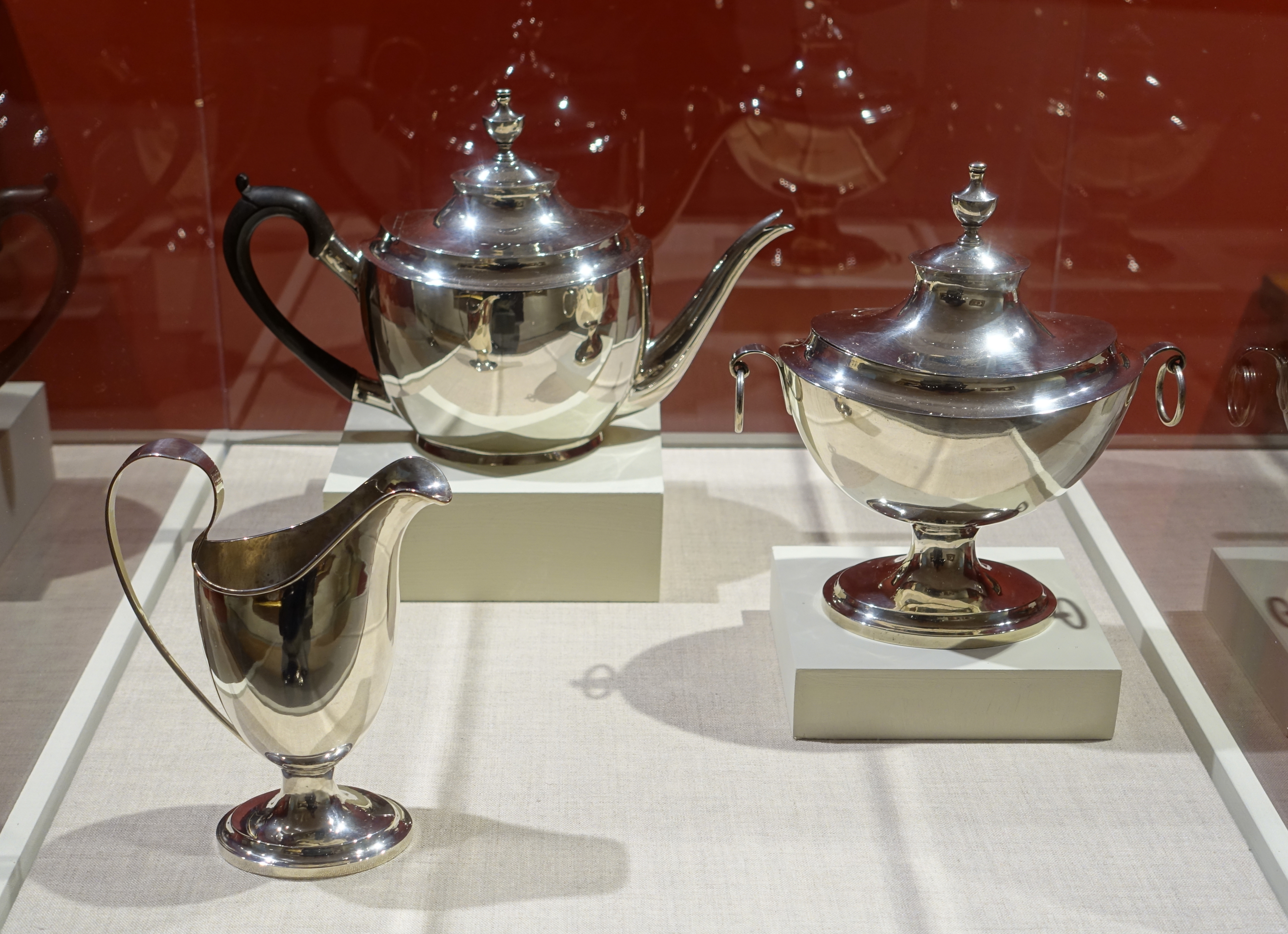 Exhibit in the Portland Museum of Art - Portland, Maine, USA.